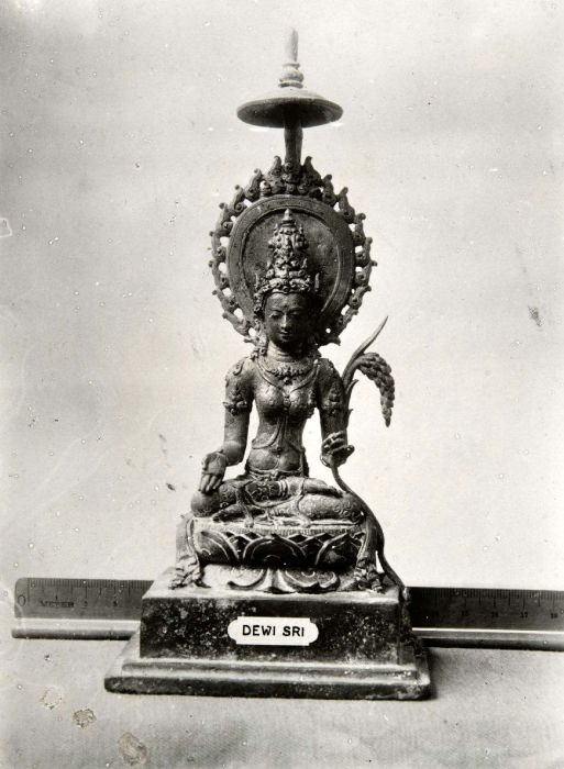 Figure representing the rice goddess Dewi Sri